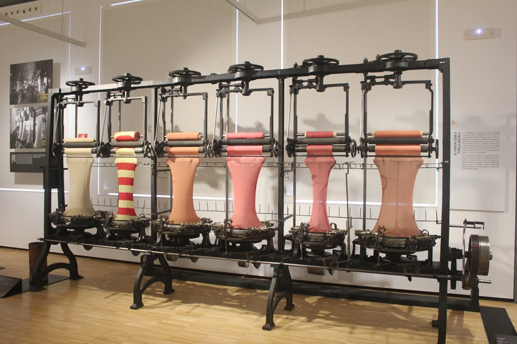 Can Marfà. Museu del Gènere de Punt: embarrat de telers